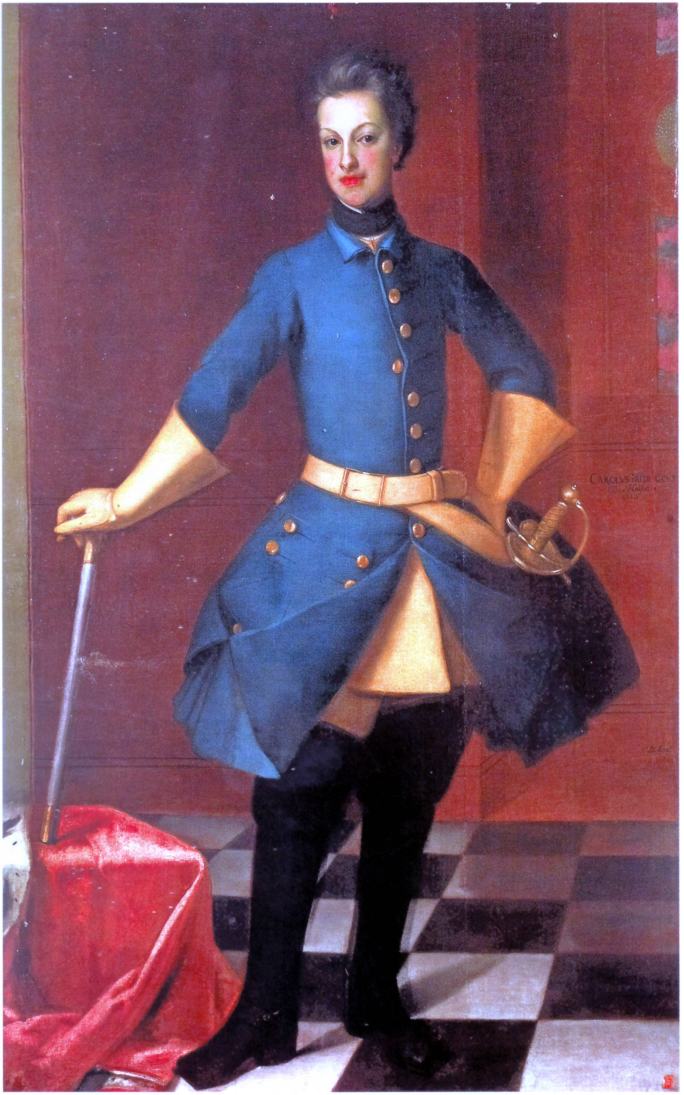 Portrait of Charles Frederick of Holstein-Gottorp (1700–1739)label QS:Lru,"Карл Фридрих Гольштейн-Готторпский" label QS:Len,"Portrait of Charles Frederick of Holstein-Gottorp (1700–1739)"